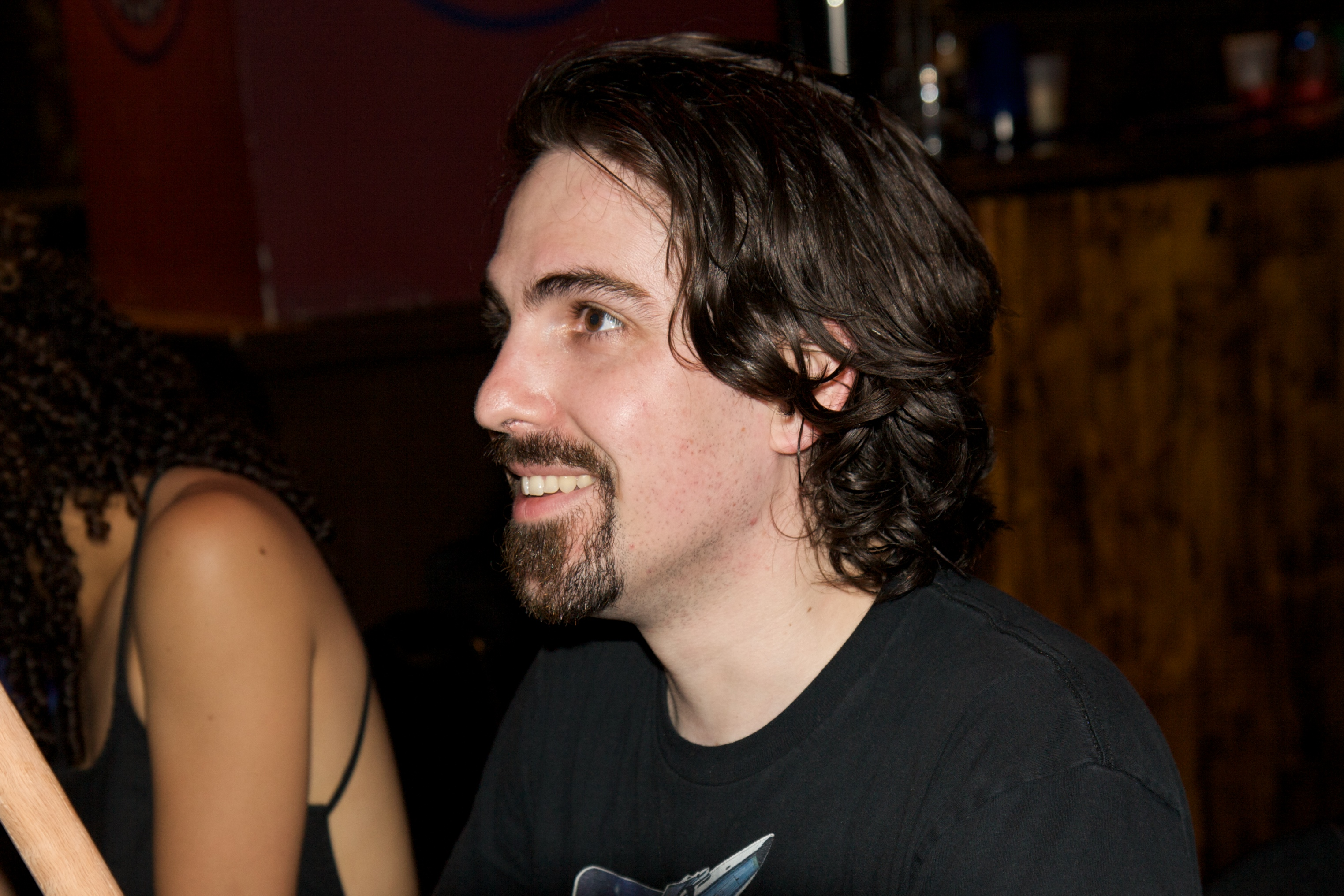 Bear McCreary at a Signing Event at House of Blues, San Diego, California after the 2nd BSG Orchestra concert during 2009 San Diego Comic-Con on July 24th 2009.